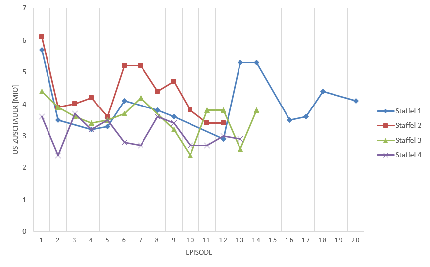 Line graph of U.S. viewers of Victorious.